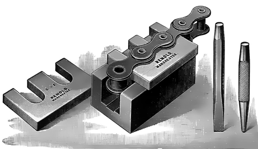 Fig. 123 Renold chain jointing tools Hand tools for rivetting links in a Renold roller chain Scans from 'The Book of the Motor Car', Rankin Kennedy C.E., 1912 See other images from this source in Scans from 'The Book of the Motor Car'